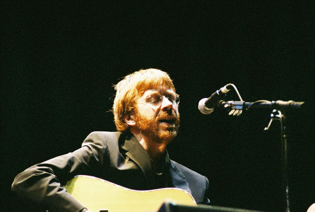 Trey Anastasio performing at the 2002 Bonnaroo music festival in Manchester, Tennessee